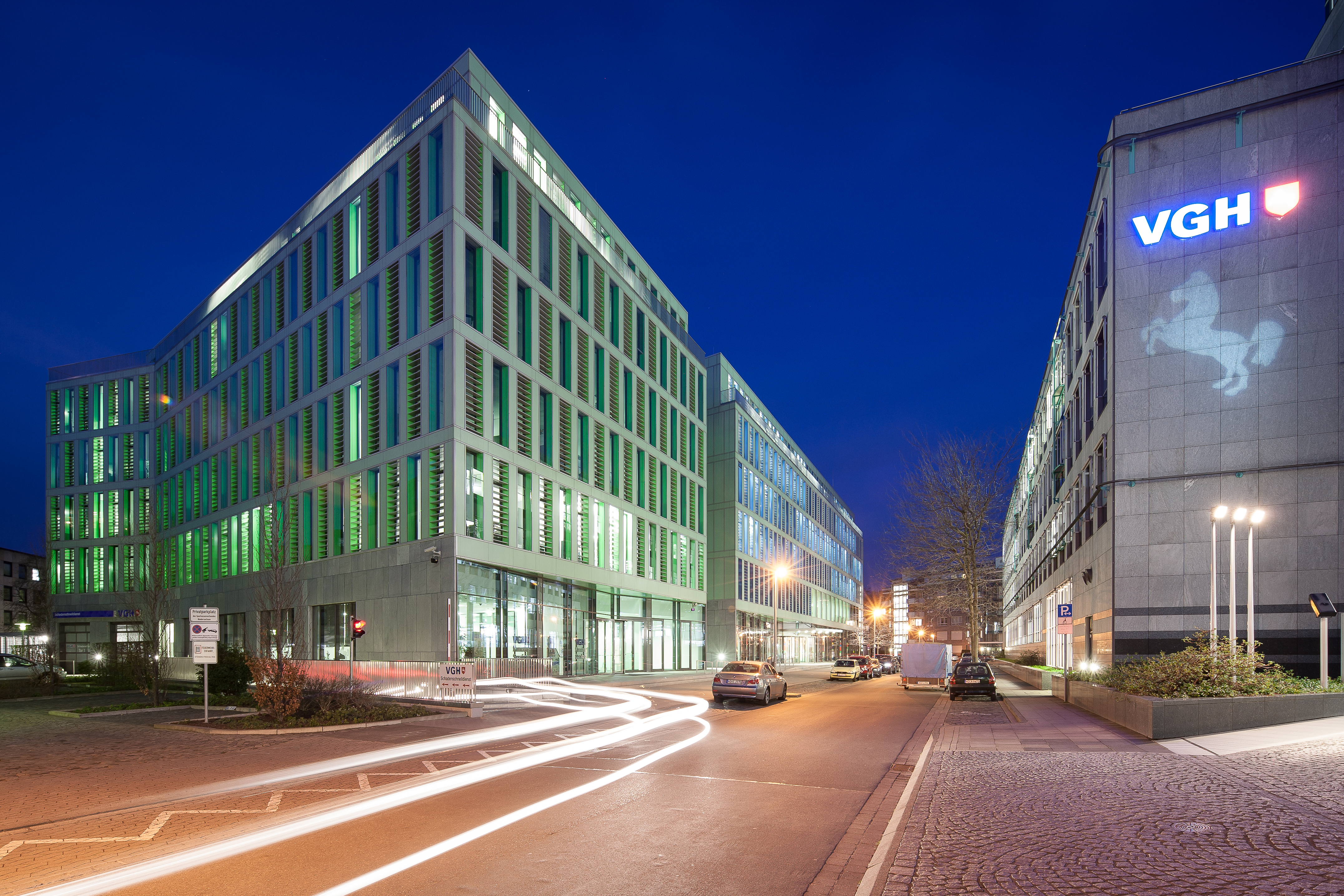 Office building of VGH insurance company located at Warmbuechenstrasse / Warmbuechenstrasse in Mitte district, Hanover, Germany.